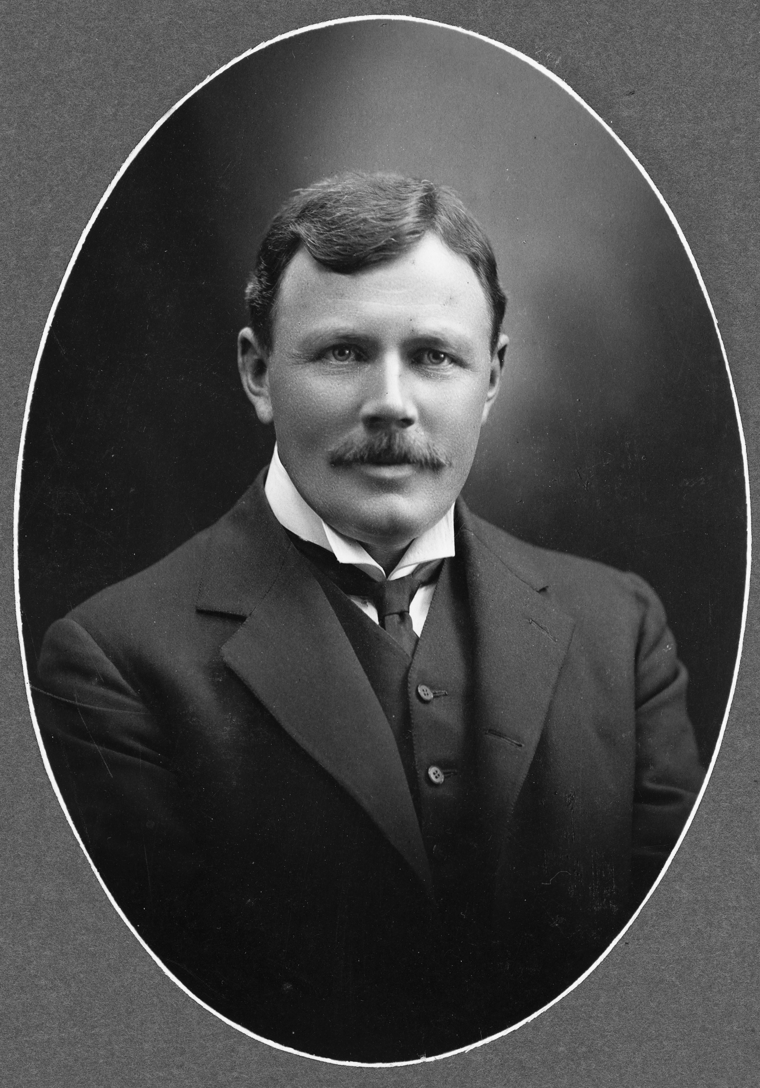 Portrait of William Hughes Field (1861-1944), Member of the House of Representatives for Otaki, taken between 1900 and 1909 by Louisa M Herrmann of Wellington.